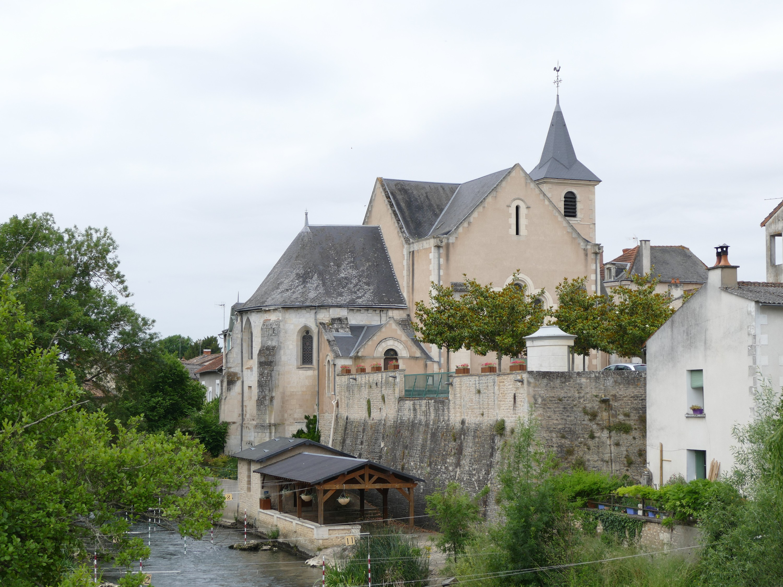 Saint-Clément's church in Chasseneuil-du-Poitou (Vienne, Poitou-Charentes, France).